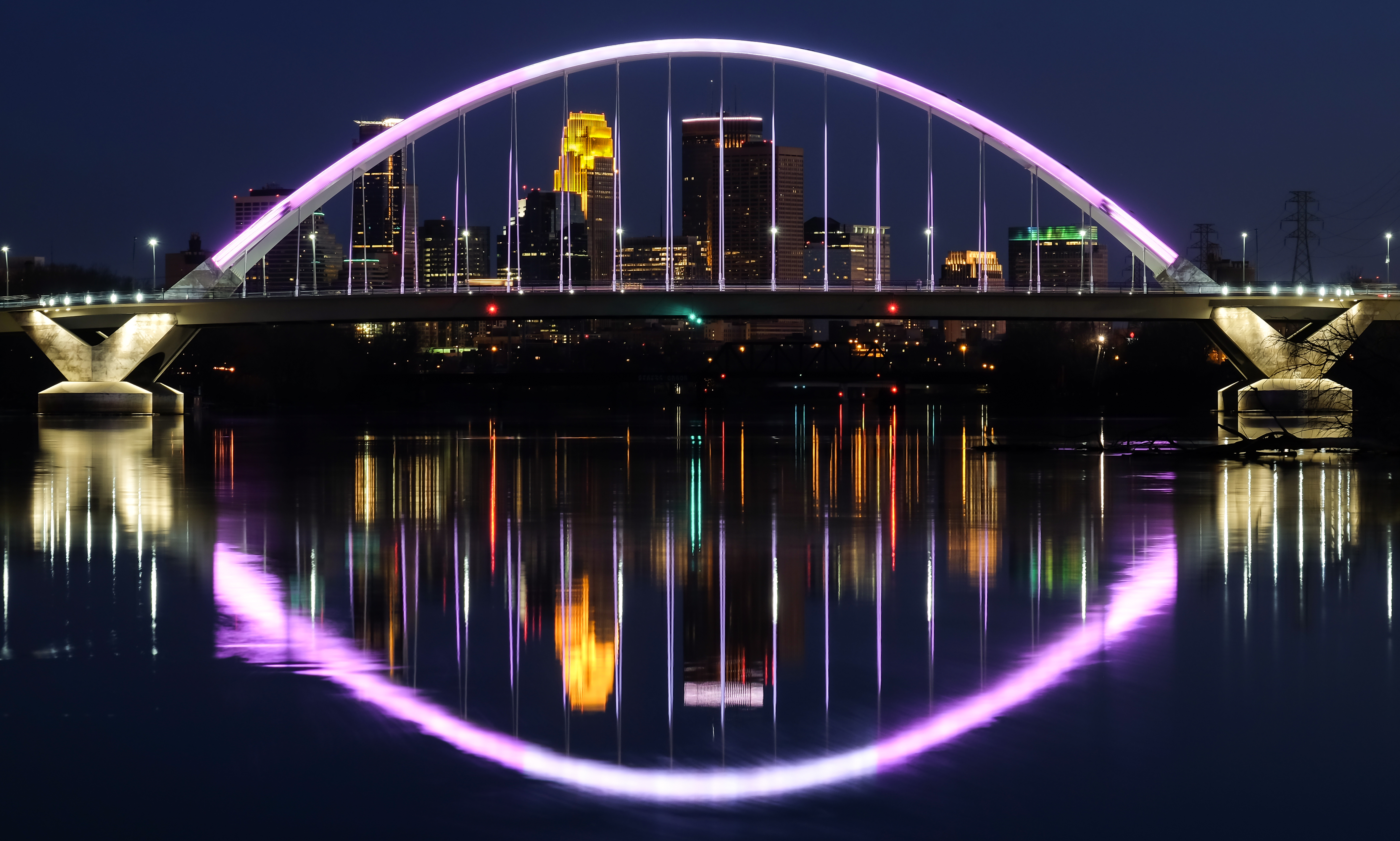 Now that I have a zoom lens I had to take my shot at this Minneapolis classic, the Lowry Avenue Bridge. It was lit purple and white today for Skate4Smiles in memory of Dawson Ellert.